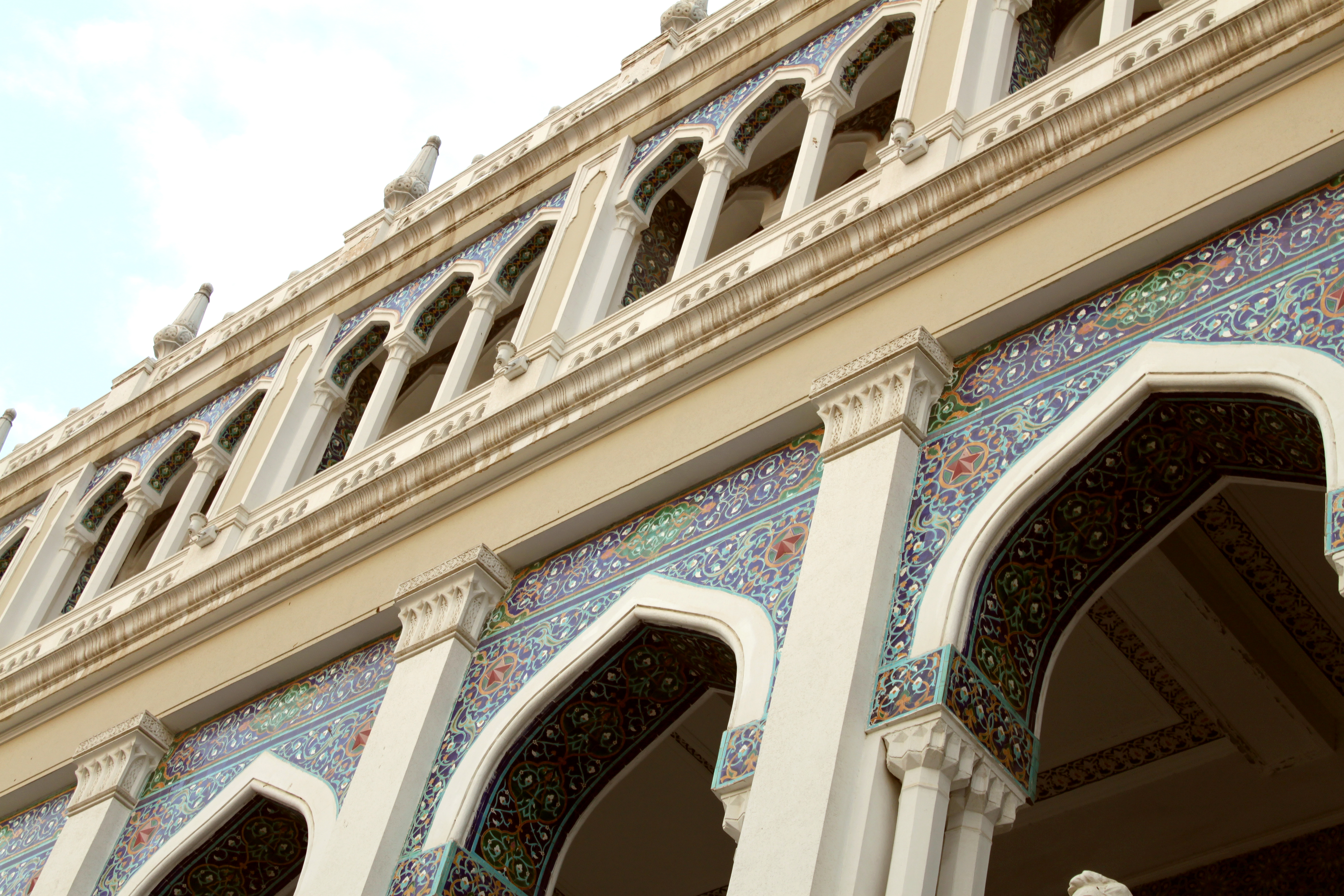 Facade detail Nizami Museum of Azerbaijan Literature building